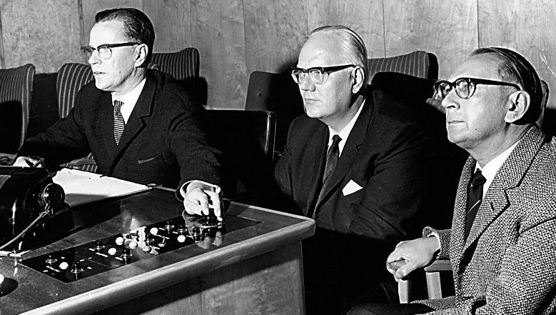 Photograph showing three censors of the Finnish Board of Film Classification at work in 1963: from left Erkki Nuorvala, Ola Wickström and Paavo Tuomari.